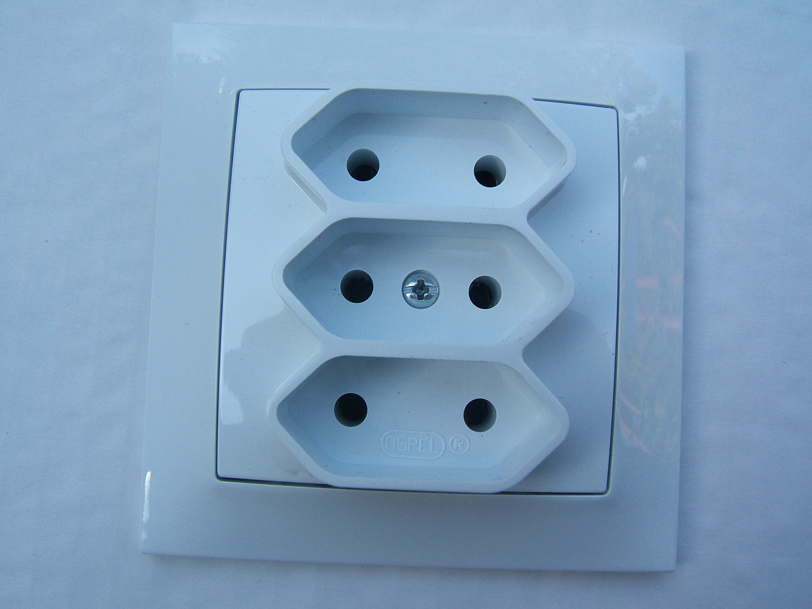 Triple mains socket for euro plugs (CEE 7/16), manufactured in Poland by Ospel